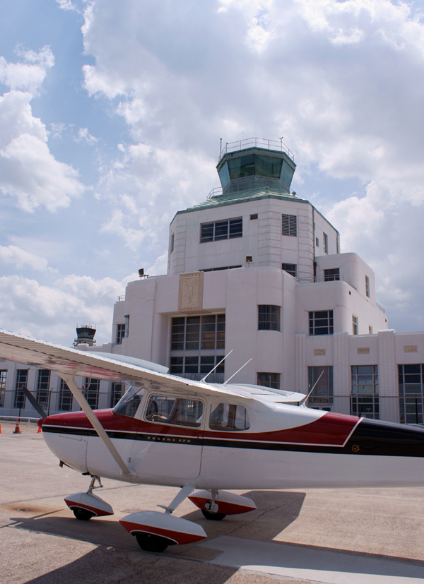 The 2008-2009 Win-A-Plane raffle winner will receive this plane if his ticket is drawn in July 2009.